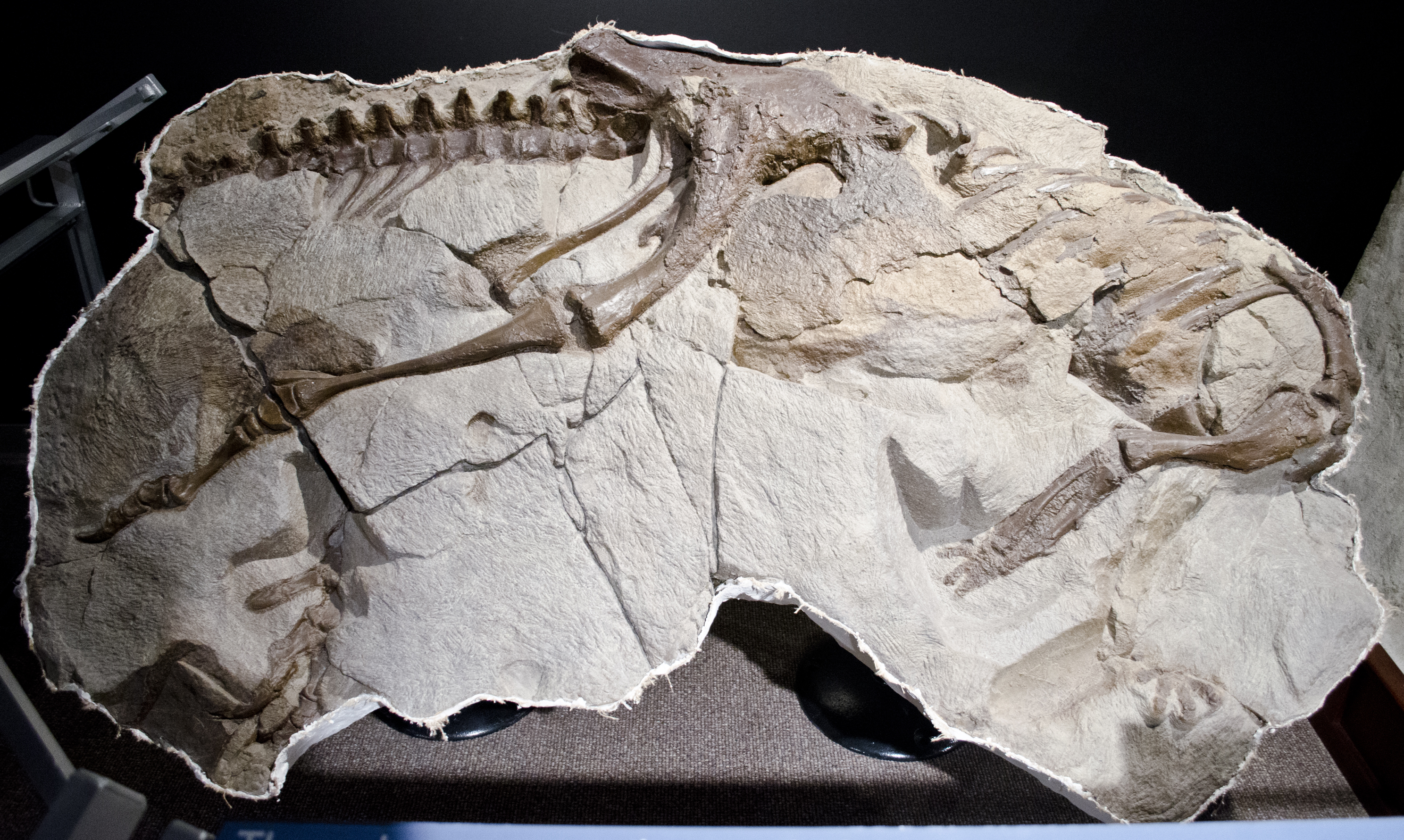 Thescelosaurus neglectus skeleton at the Museum of the Rockies in Bozeman, Montana. Found in Dawson County, Montana, it is the best hypsilophodontid fossil yet found, and the most complete. The rock in which this fossil is encased is exceptionally hard, and the bones exceptionally fragile. It may be years before it is removed from the rock.